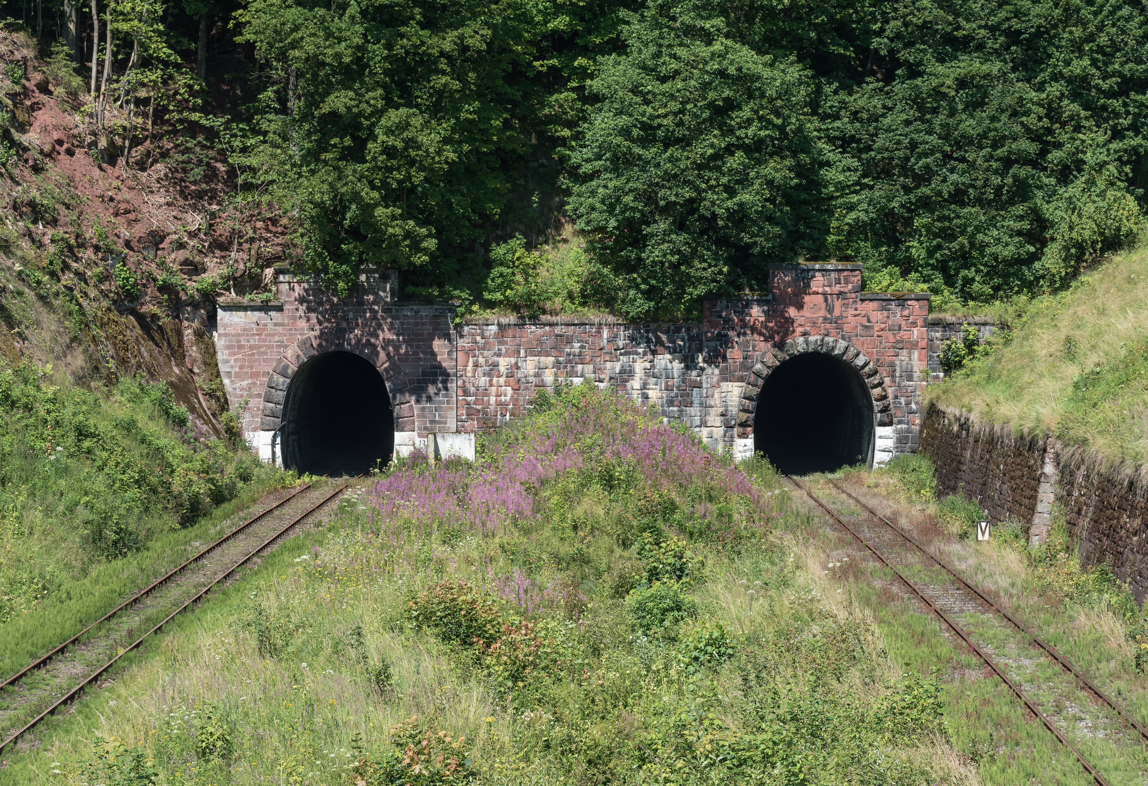 Rail tunnels under Świerkowa Kopa